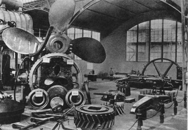 1869 founded the firm in Emil Skoda Plzen